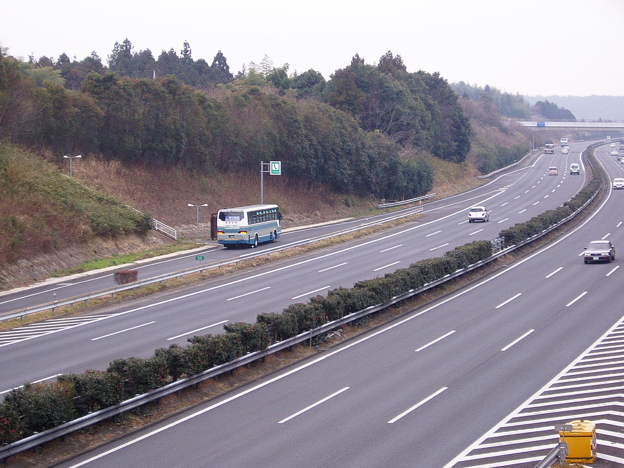 Ishioka Bus Stop for Tokyo